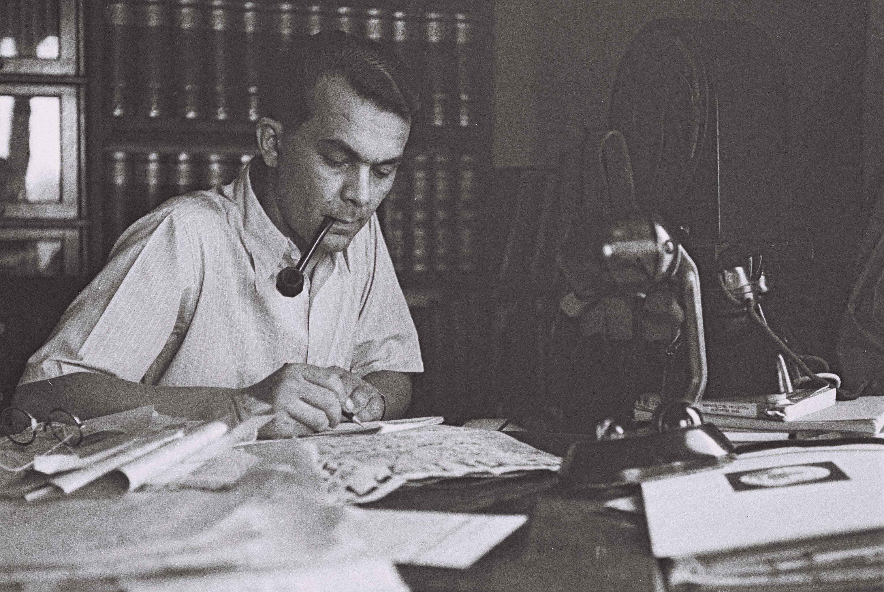 PUBLICIST AND JOURNALIST AZRIEL CARLEBACH